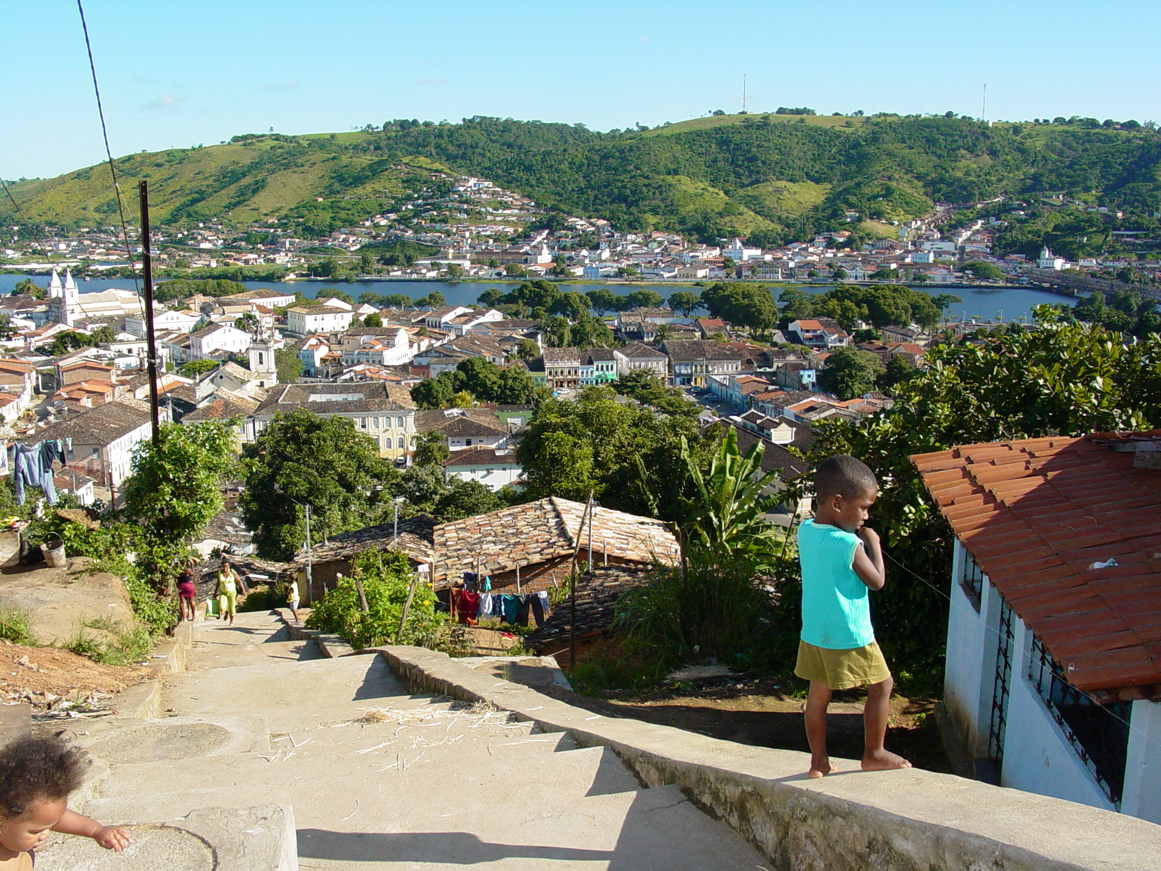 View over Cachoeira and the Paraguacu River, with Sao Felix visible on the other side of the river. Bahia state, Brazil. July 2006.